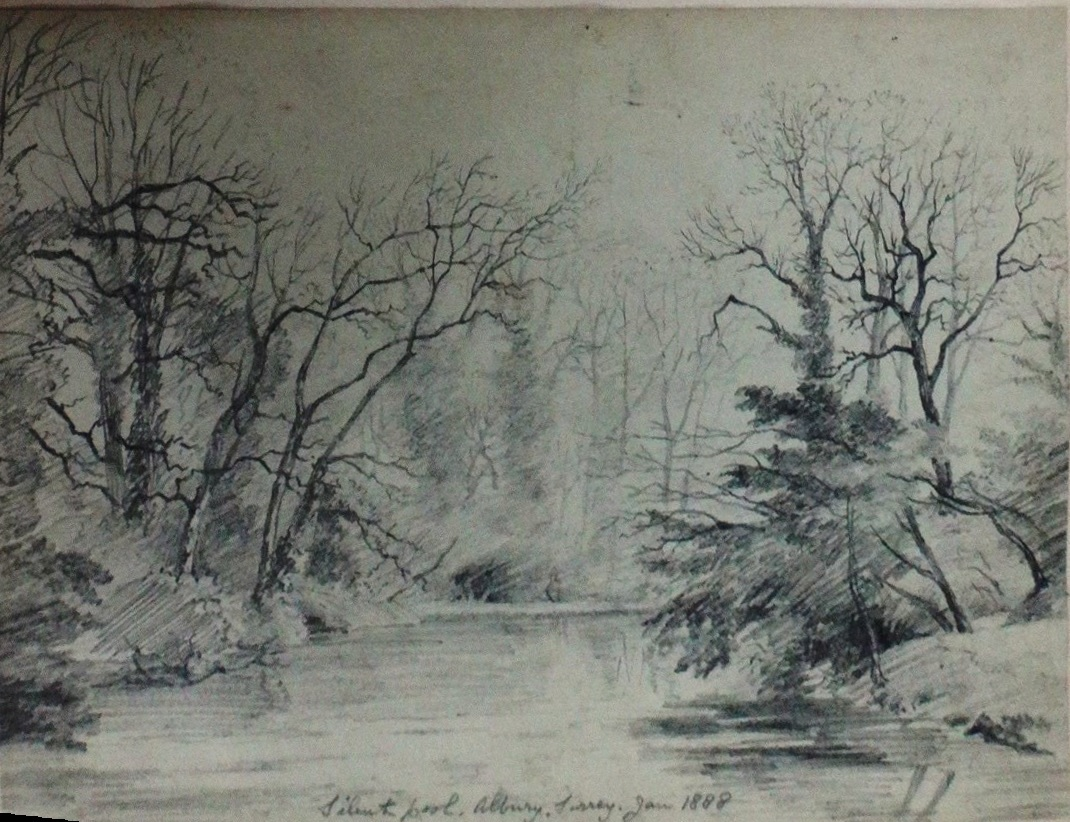 This pencil sketch portrays the Silent Pool on the Albury estate near Guildford, on a tributary of the River Tillingbourne. It was made in January 1888, and forms part of Pinhorn Wood's collection of 'Sketches from Nature (1869-1908)'.